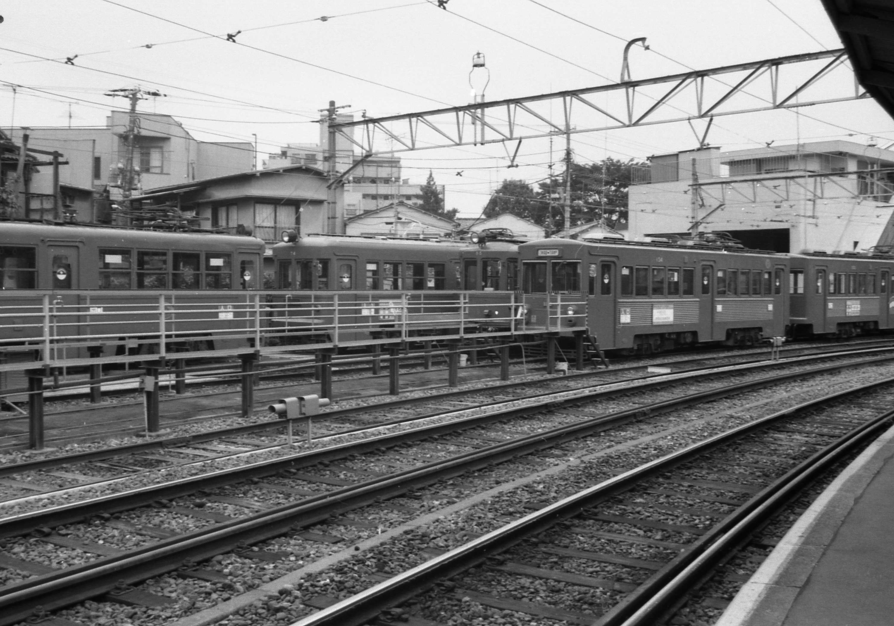 Kamimachi depot on Tokyu Setagaya line